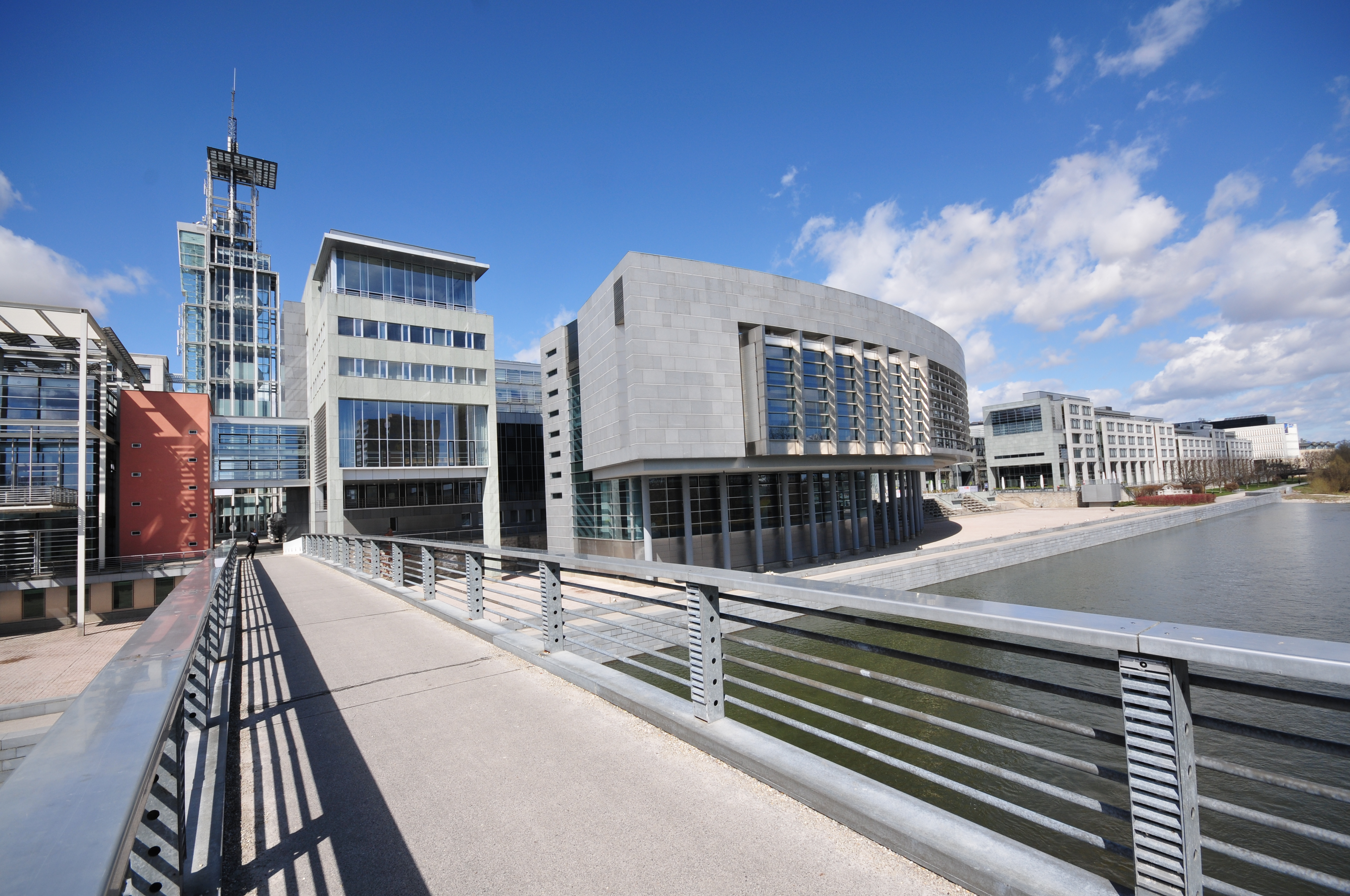 St. Pölten, Austria, Landhausviertel Fotowanderung St. Pölten 13. April 2013 in St. Pölten, Niederösterreich 50mm • Allgemeines • Bahnhof • Domplatz • Fahrräder • Landhausviertel • Rathausplatz